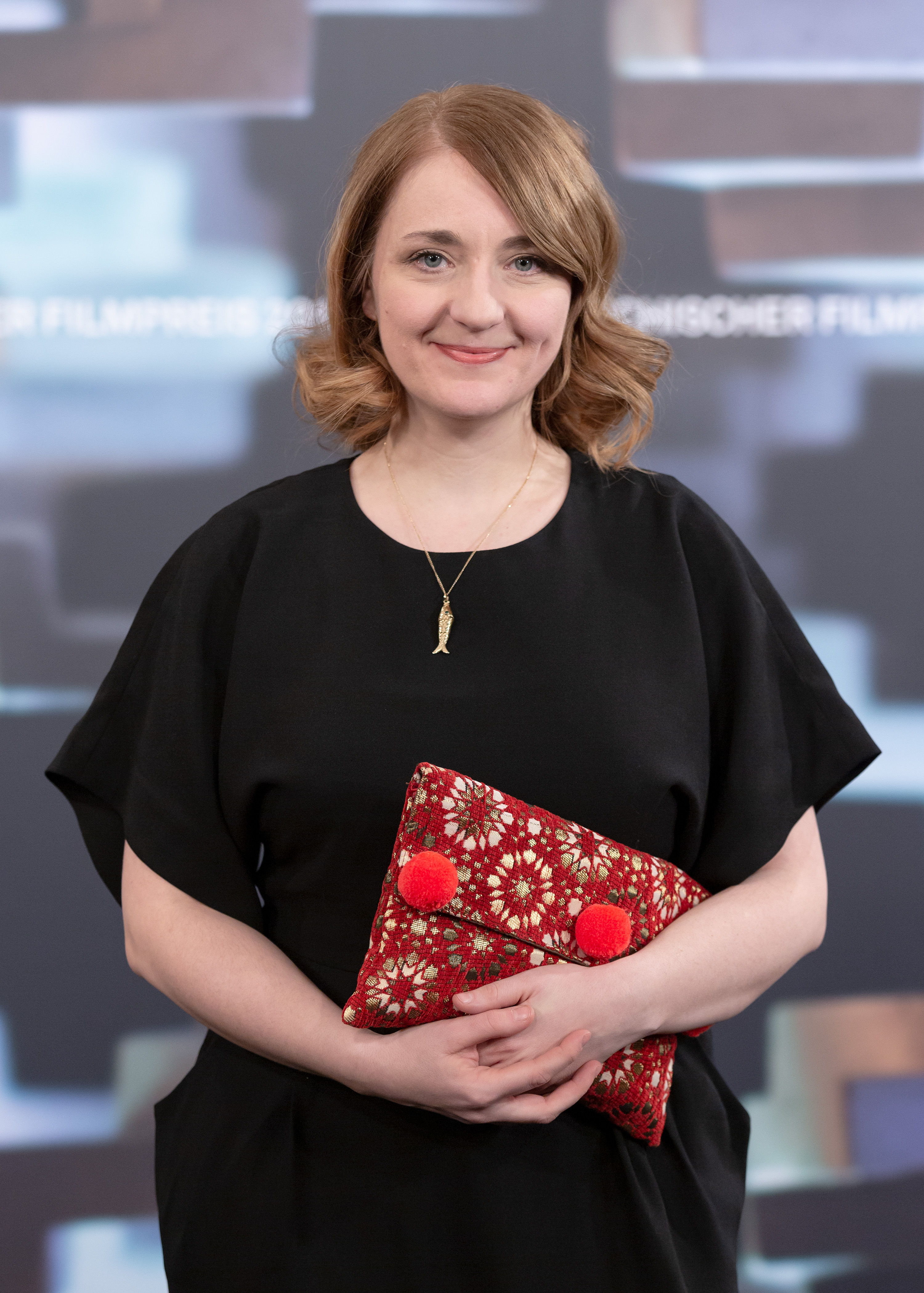 Nina Kusturica, photo call at the Austrian Film Awards 2019 (Rathaus, Vienna,Austria).